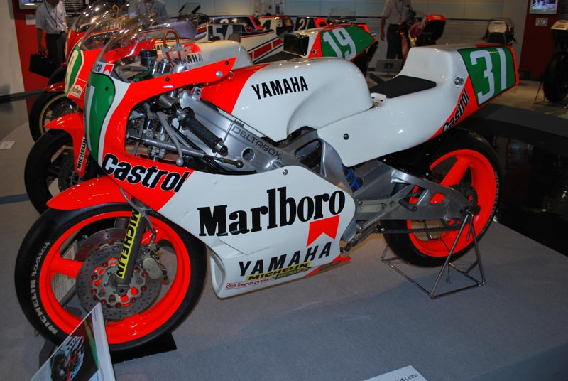 Yamaha YZR250 (1986, Tadahiko Taira)